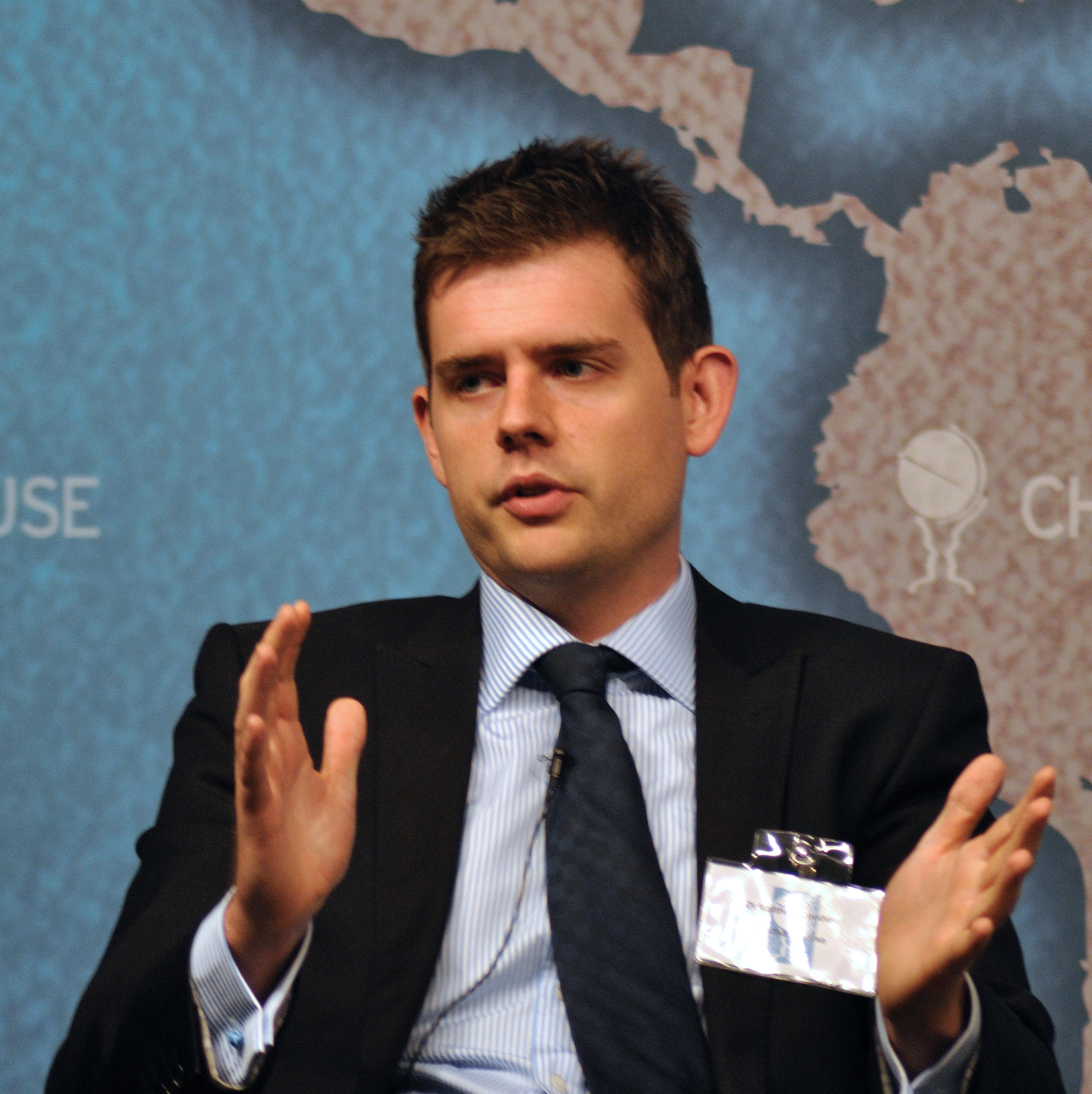 The Rise of Populist Extremism in Europe